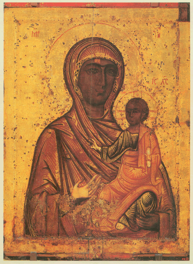 Our Lady of Toropets Торопецкая икона Божией Матери